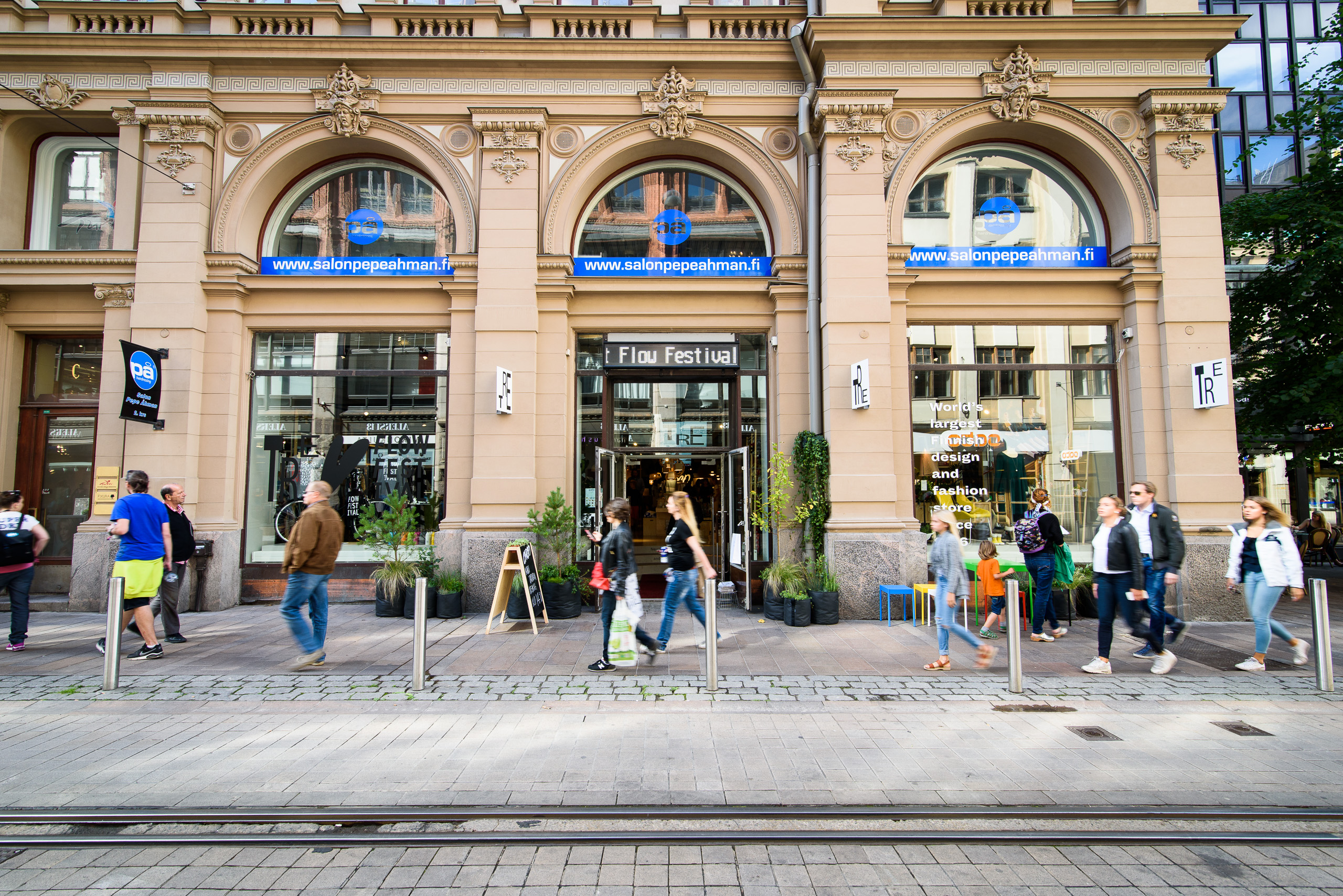 TRE Concept Store outside (Mikonkatu 6, Helsinki)